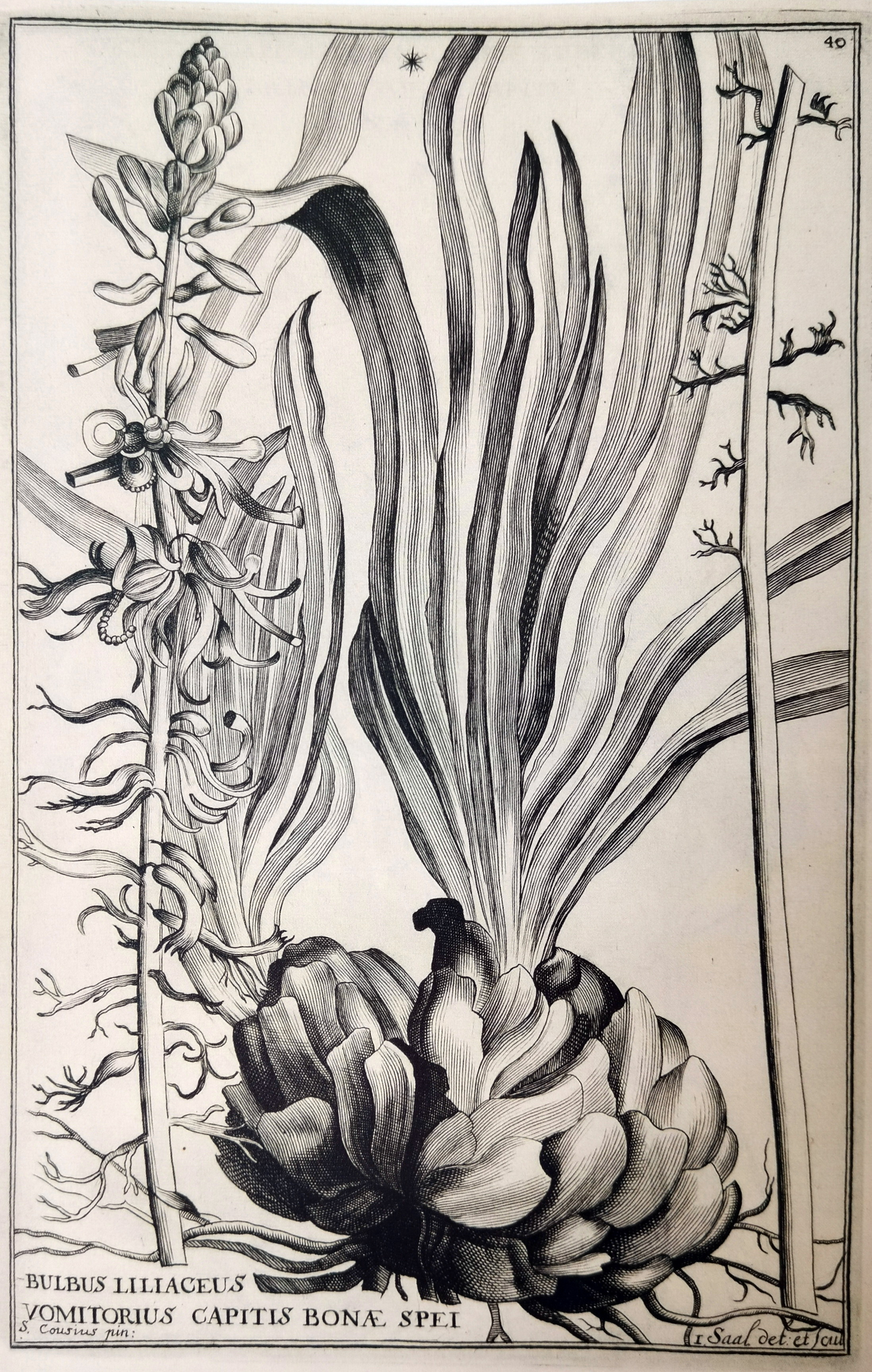 Drimia elata Jacq. - from "Exoticarum aliarumque minus cognitarum plantarum centuria prima" by Jacob Breyn (1637-1697)